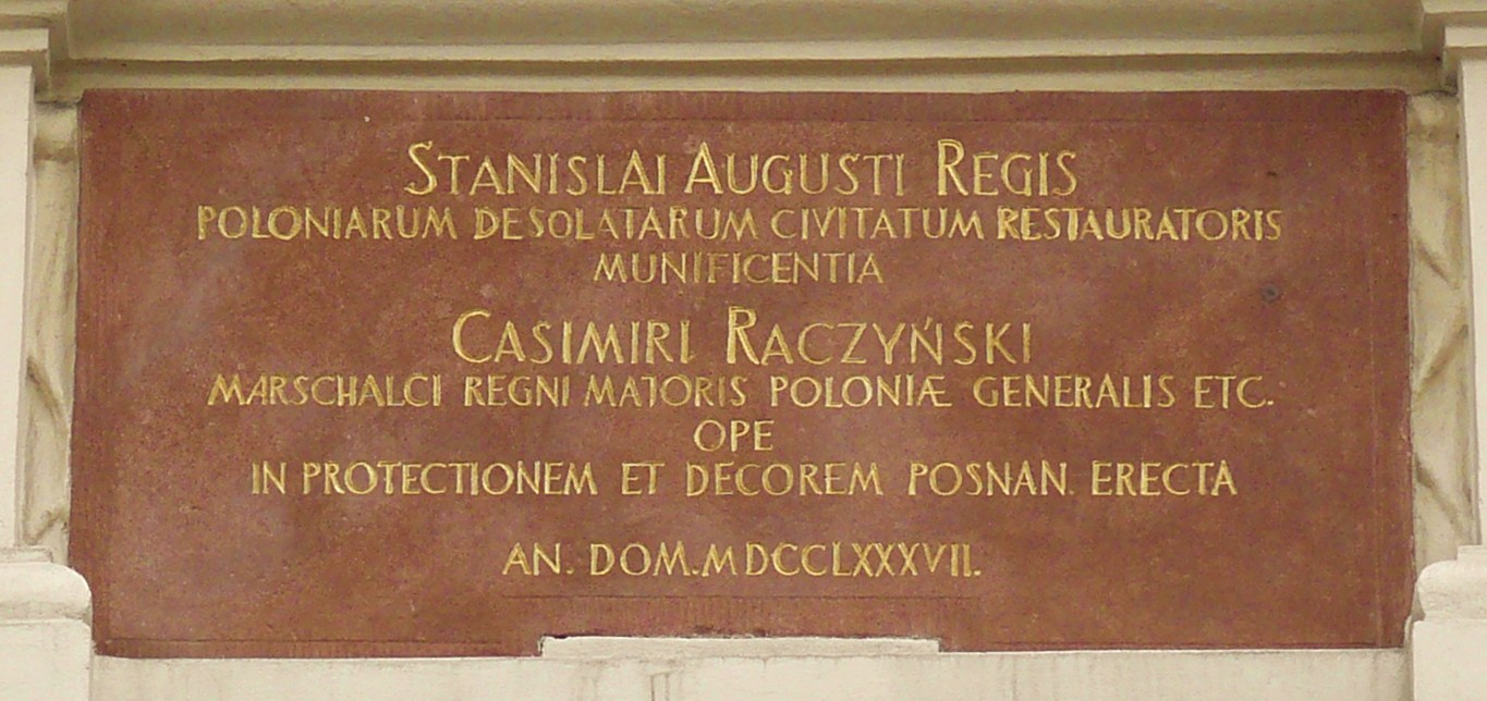 Odwach Building, Poznan, Old Squere.